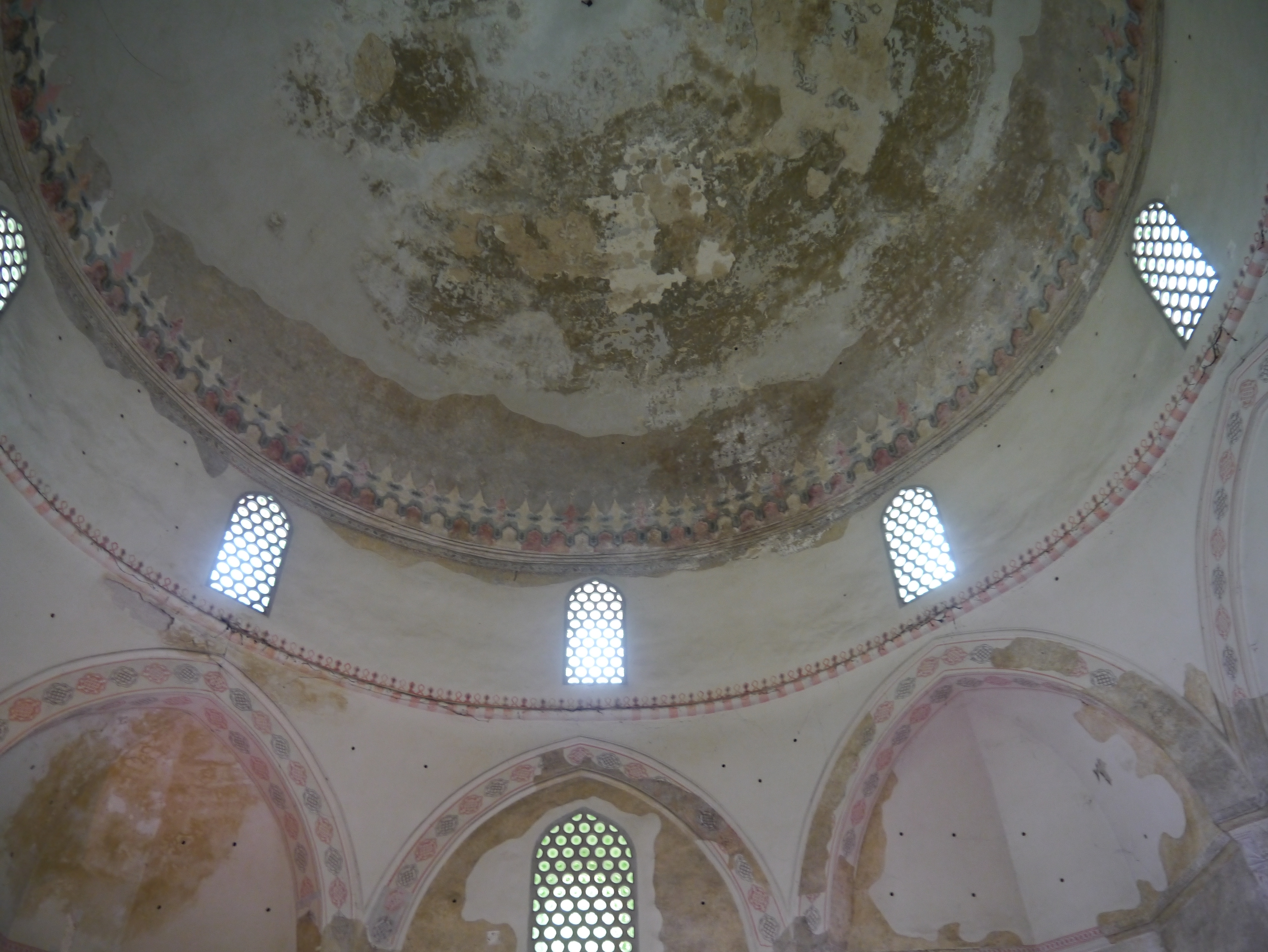 Dome of the Ottoman Mosque, Pécs, Southern Hungary